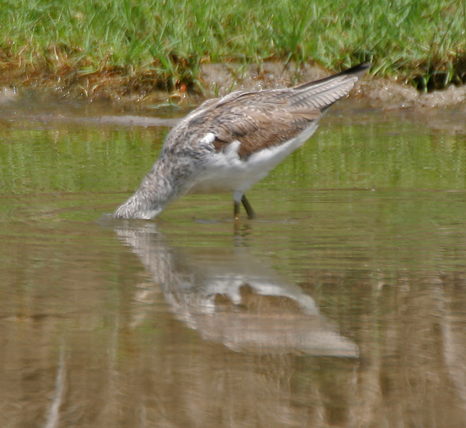 Common Greenshank ((Tringa nebularia)) at Keoladeo National Park, Bharatpur, Rajasthan, India.